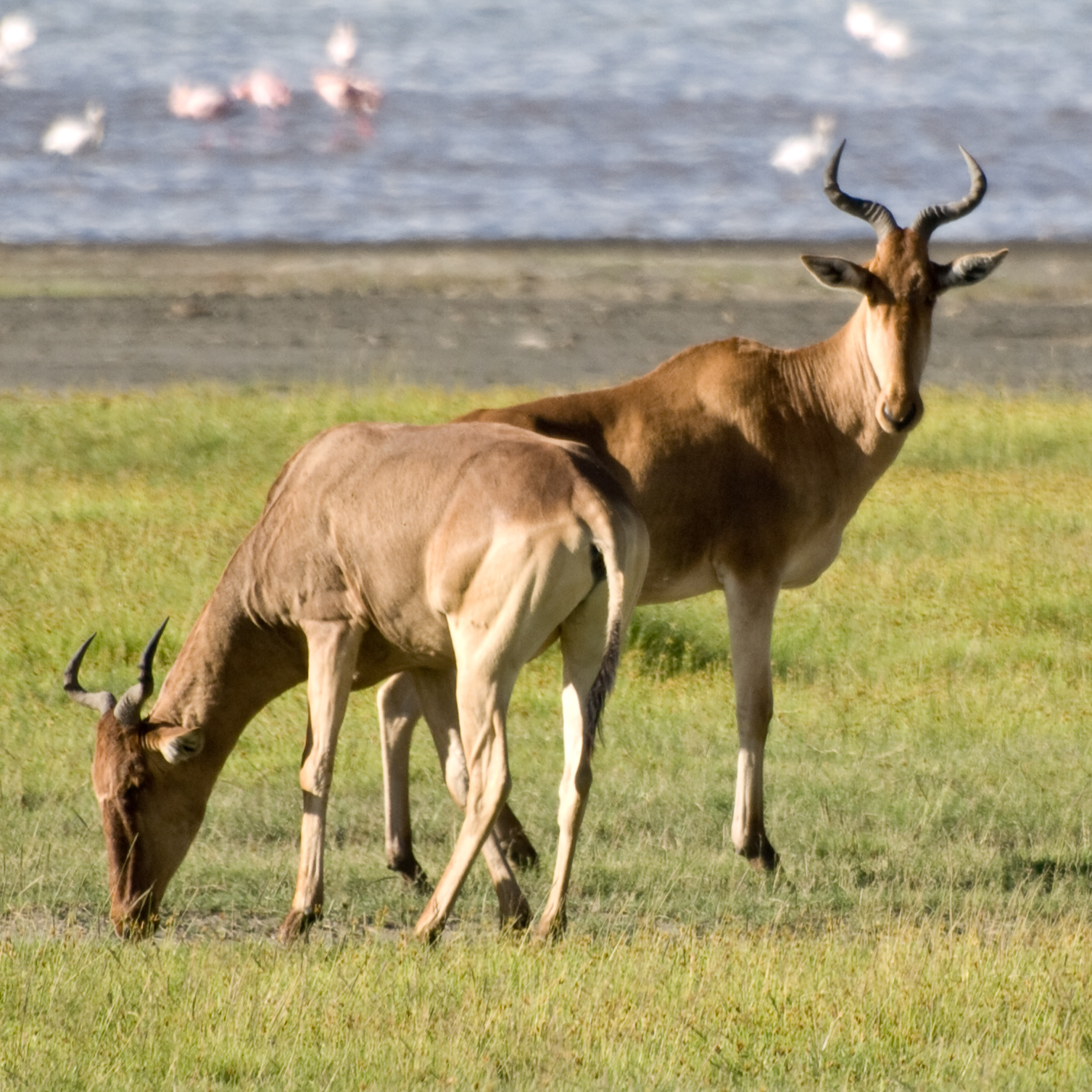 Pair of hartebeest grazing near the water in the Ngorongoro Crater, Tanzania